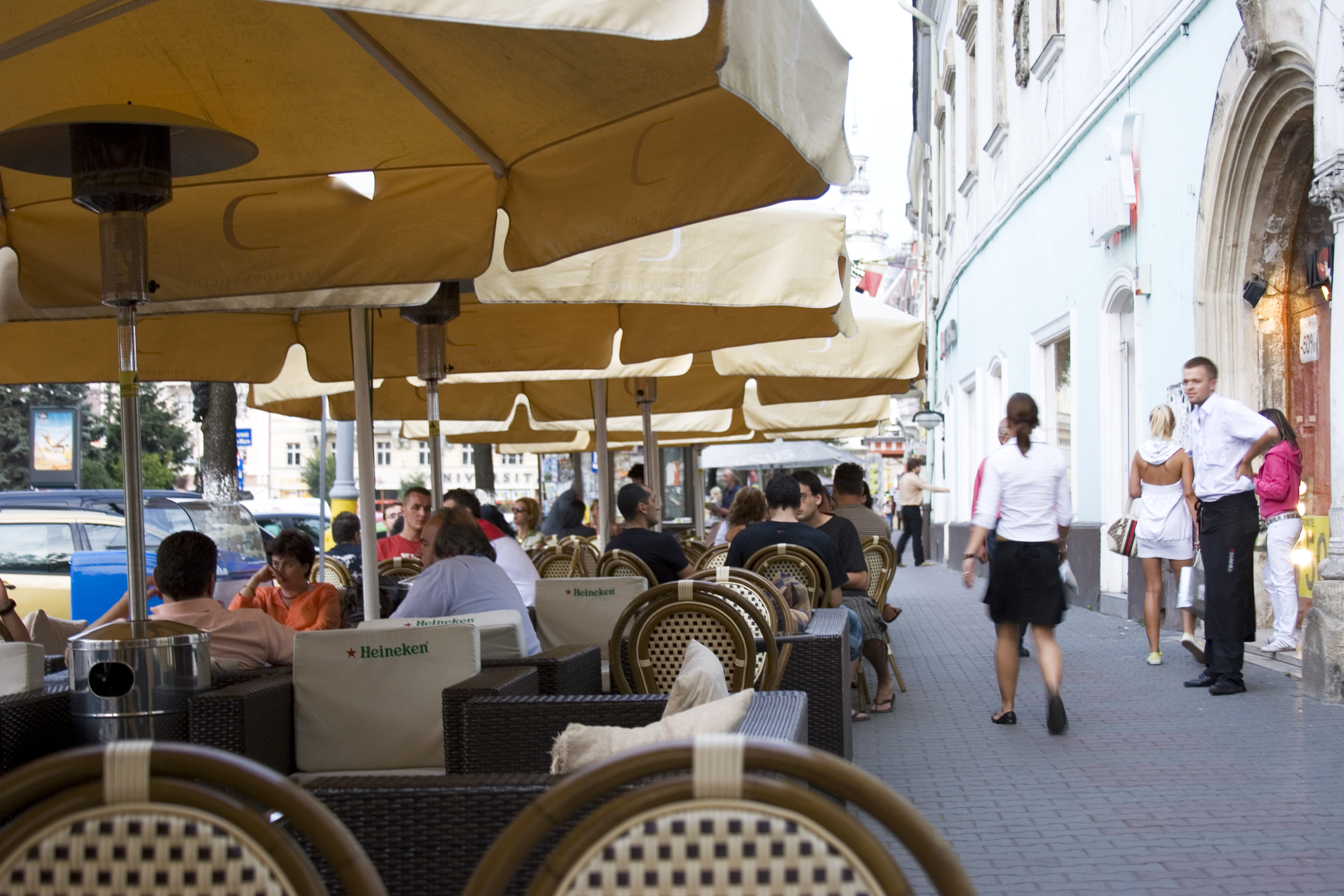 The scene of a bar called Diesel in Cluj